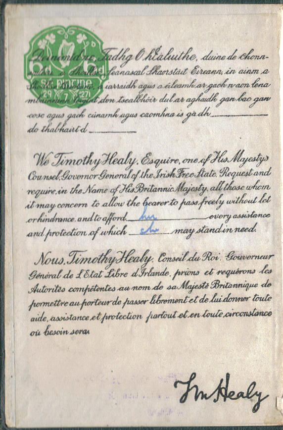 'Request page' of Irish Free State passport issued 22 Aug 1927. We Timothy Healy, Governor General of the Irish Free State, Requests..bearer to pass freely etc.